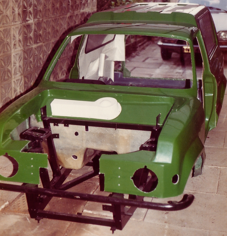 Dutton Sierra Kit Car Chassis and Body prior to fitting mechanical components from a Mark 1 Ford Escort Photograph taken by Dave Sumpner in 1980